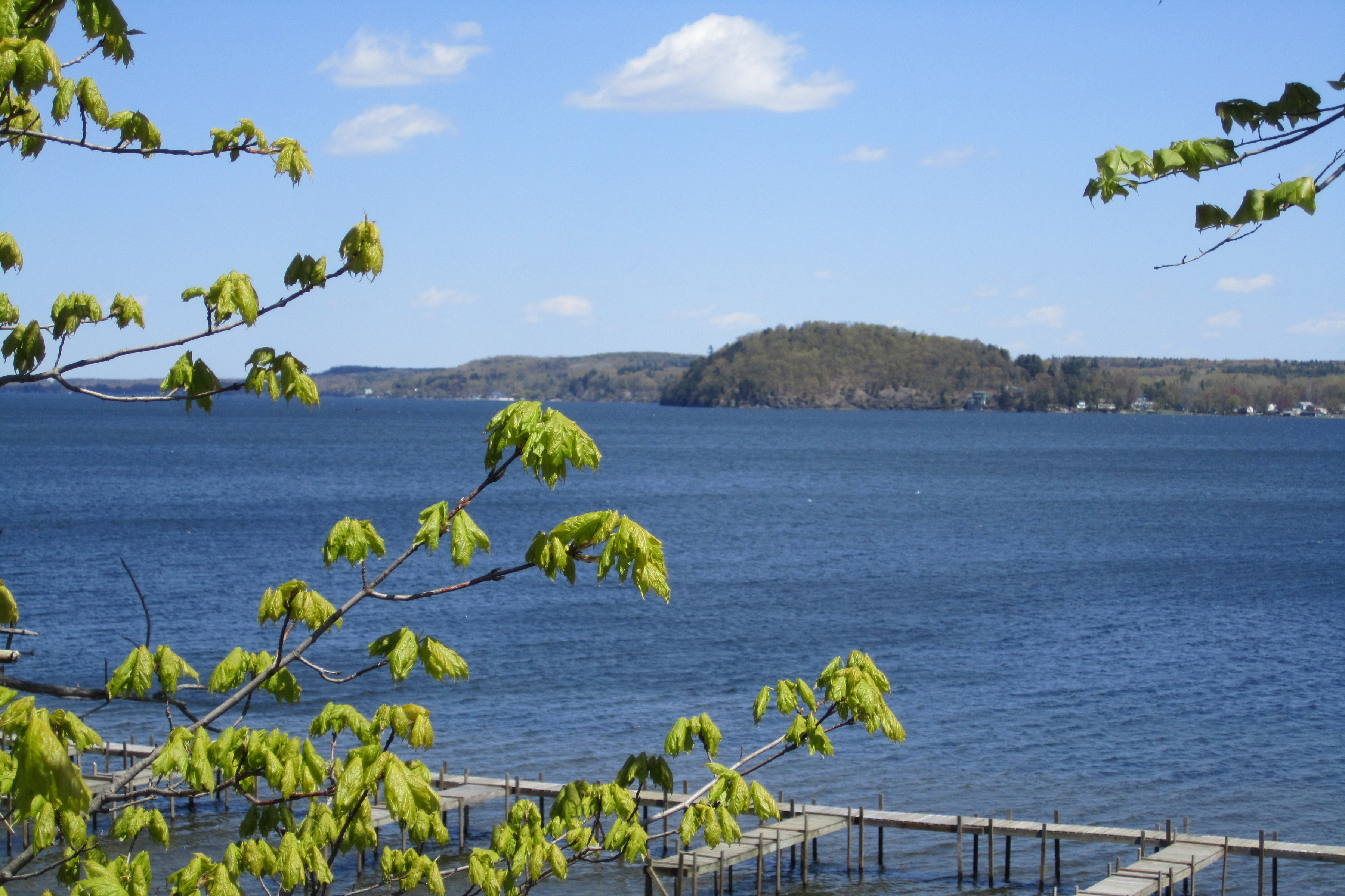 View of Saratoga Lake, NY from the South with view of Snake Hill, April, 2012.